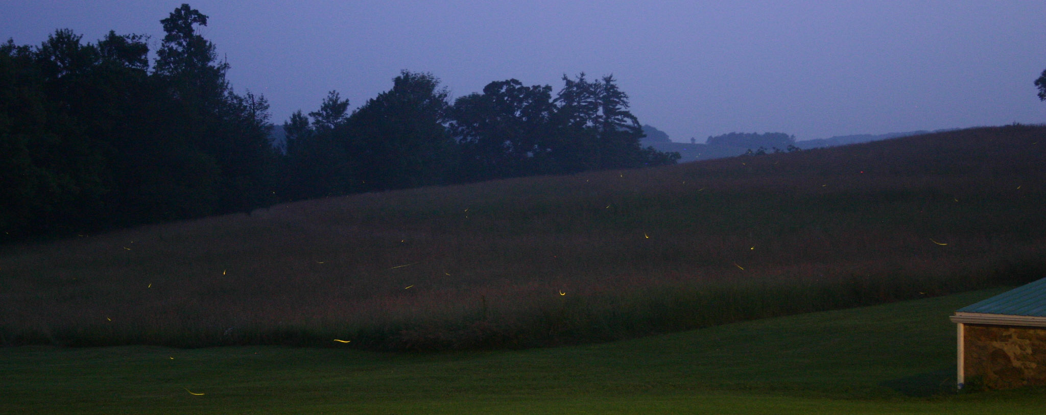 1-sec exposure of fireflies flashing in a field in Indiana County, Pennsylvania.